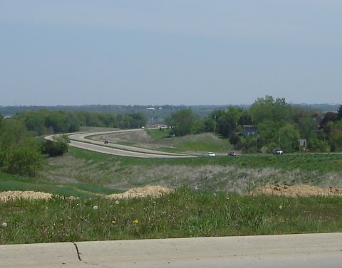 A section of Iowa State Highway 32, found near Dubuque, Iowa.